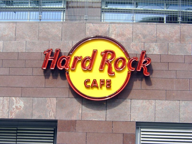 Hard Rock Cafe Warsaw Poland (Logo)